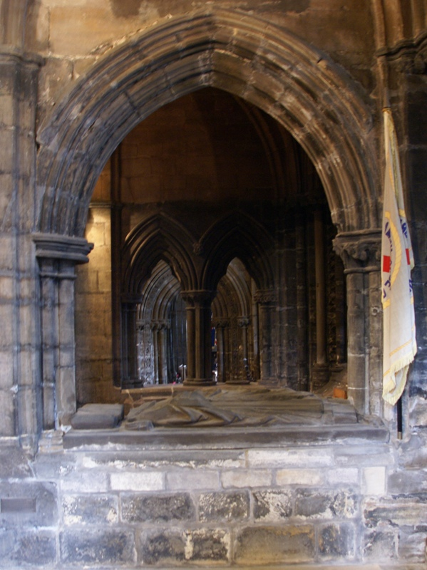 Glasgow Cathedral, Glasgow, Scotland - effigy of bischop Wishart in the crypt